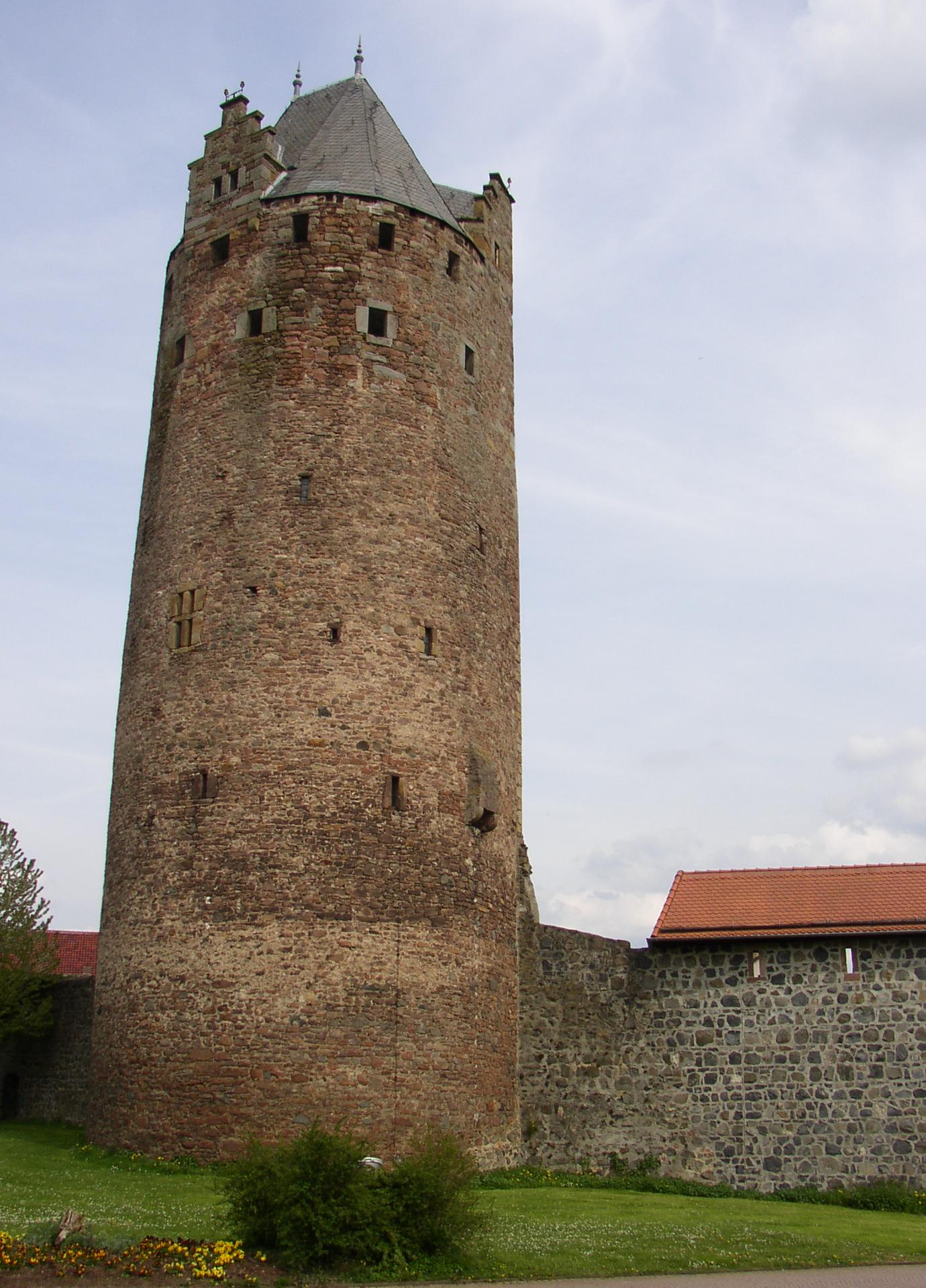 The "Grey Tower" in Fritzlar in Hesse, Germany, view from the outside of the old town